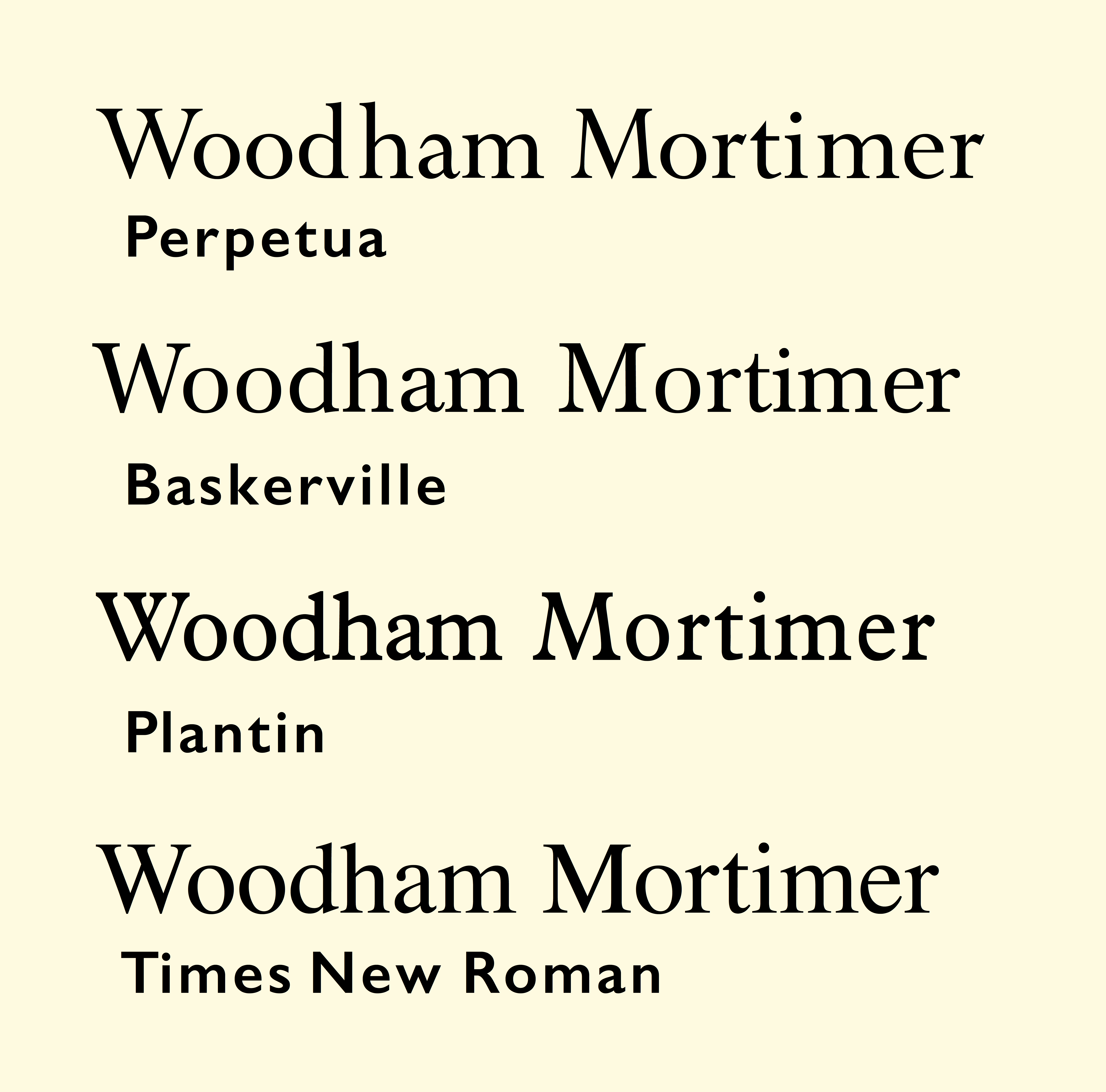 Times New Roman and the three typefaces proposed as sources for its development